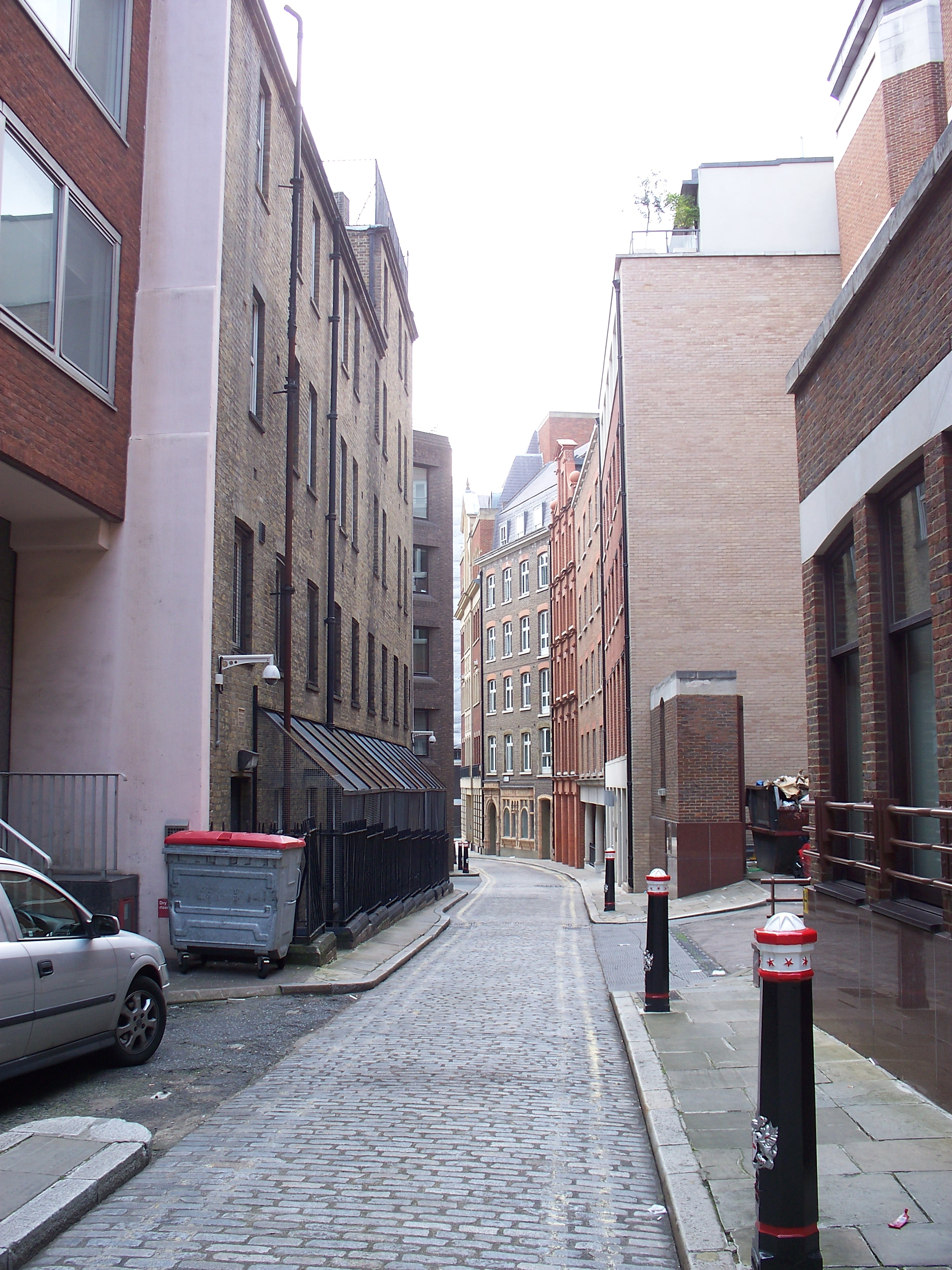 Cock Lane, London. Photograph taken in a public location in the UK of a structure on permanent public display, and exempt from copyright under Section 62 of the Copyright Designs & Patents Act 1988 ("it is not an infringement of copyright to film, photograph, broadcast or make a graphic image of a building, sculpture, models for buildings or work of artistic craftsmanship if that work is permanently situated in a public place or in premises open to the public")